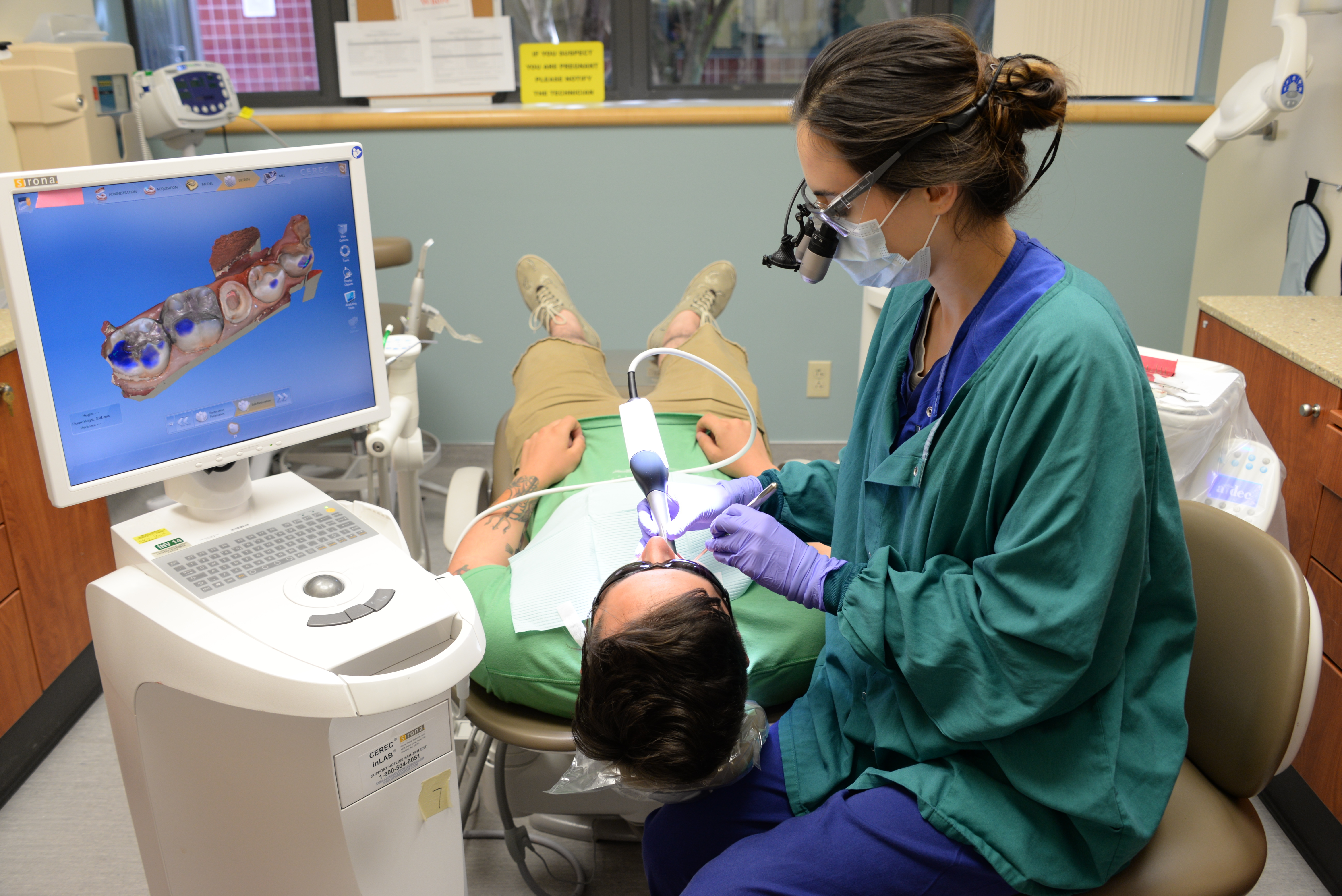 Capt. Eileen Welch, 60th Dental Squadron advanced education in general dentistry resident, uses the inter oral digital scan for a cerec cad/cam crown May 2, 2016, at Travis Air Force Base, California. The patient is treated by using the crown that went through several steps in the dental clinic before it was placed on the patient's tooth. (U.S. Air Force photo by Senior Airman Amber Carter) Unit: 60th Air Mobility Wing Public Affairs DVIDS Tags: Airmen; Medical; Travis AFB; Air Force; Airman; Dental